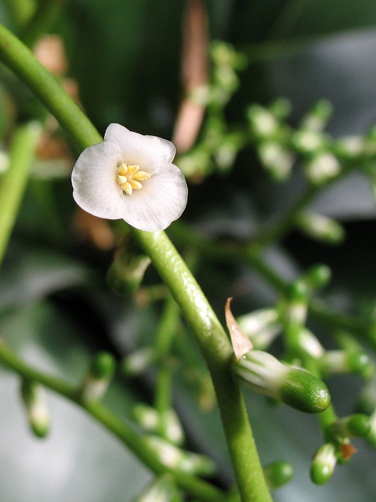 Lymania alvimii, in cultivation at the Botanical Garden of Heidelberg, Germany.